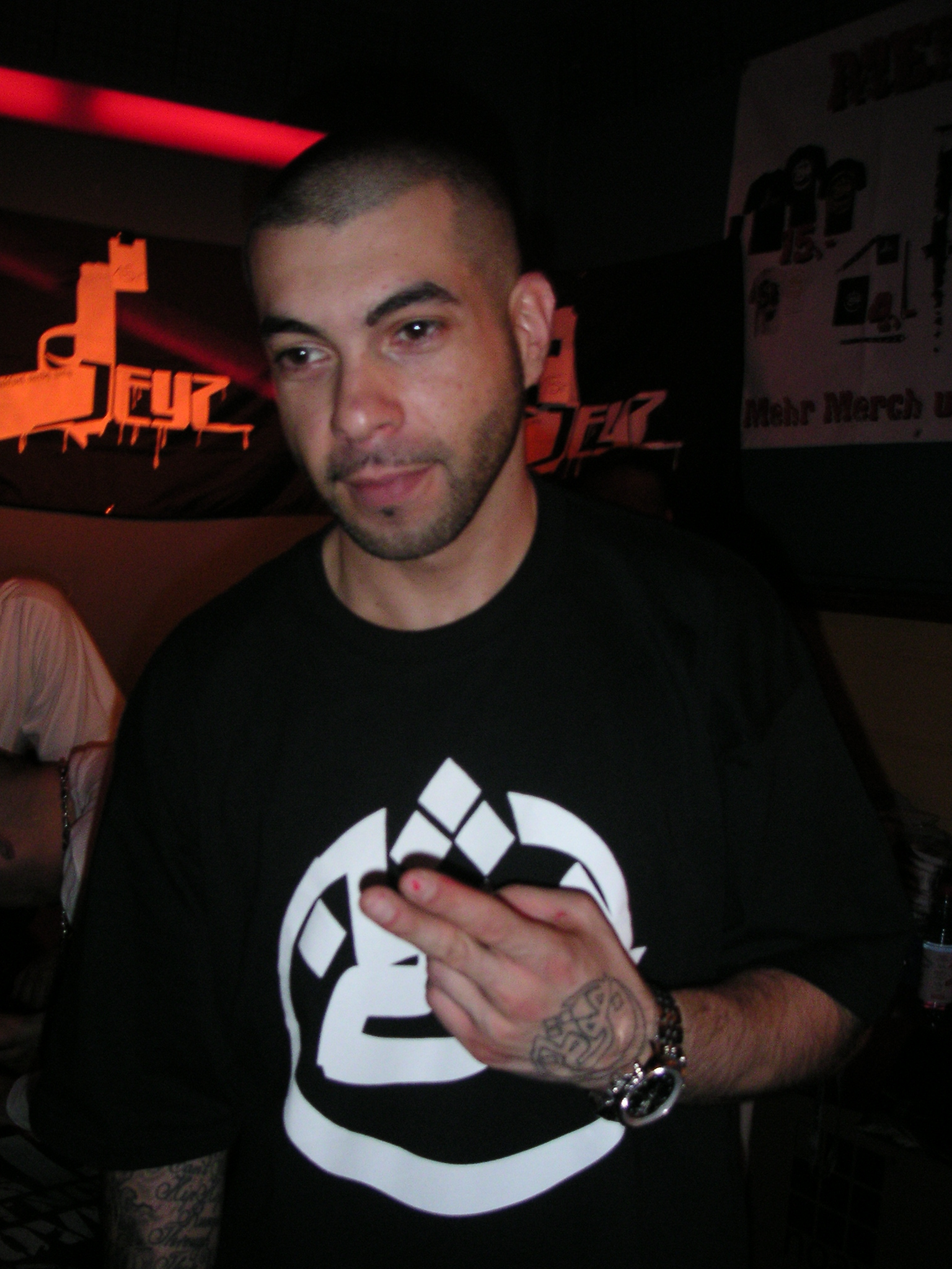 The rapper Azad after a show with Jonesmann at the Colos-Saal in Aschaffenburg.